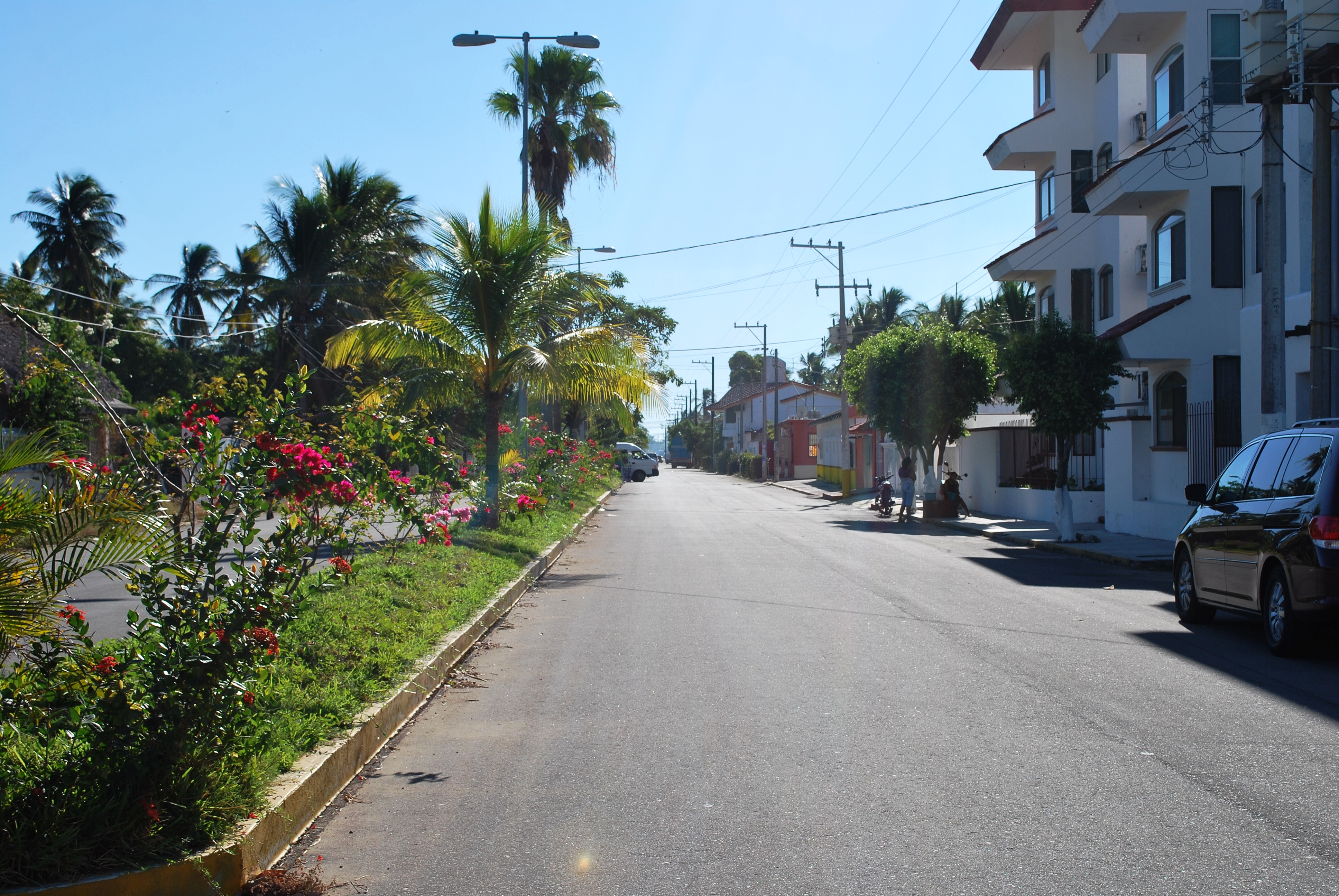 Northwest end of the main street of Puerto Arista, Chiapas looking towards center of town